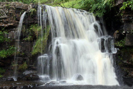 East Gill Force waterfall on East Gill, a tributary of the River Swale